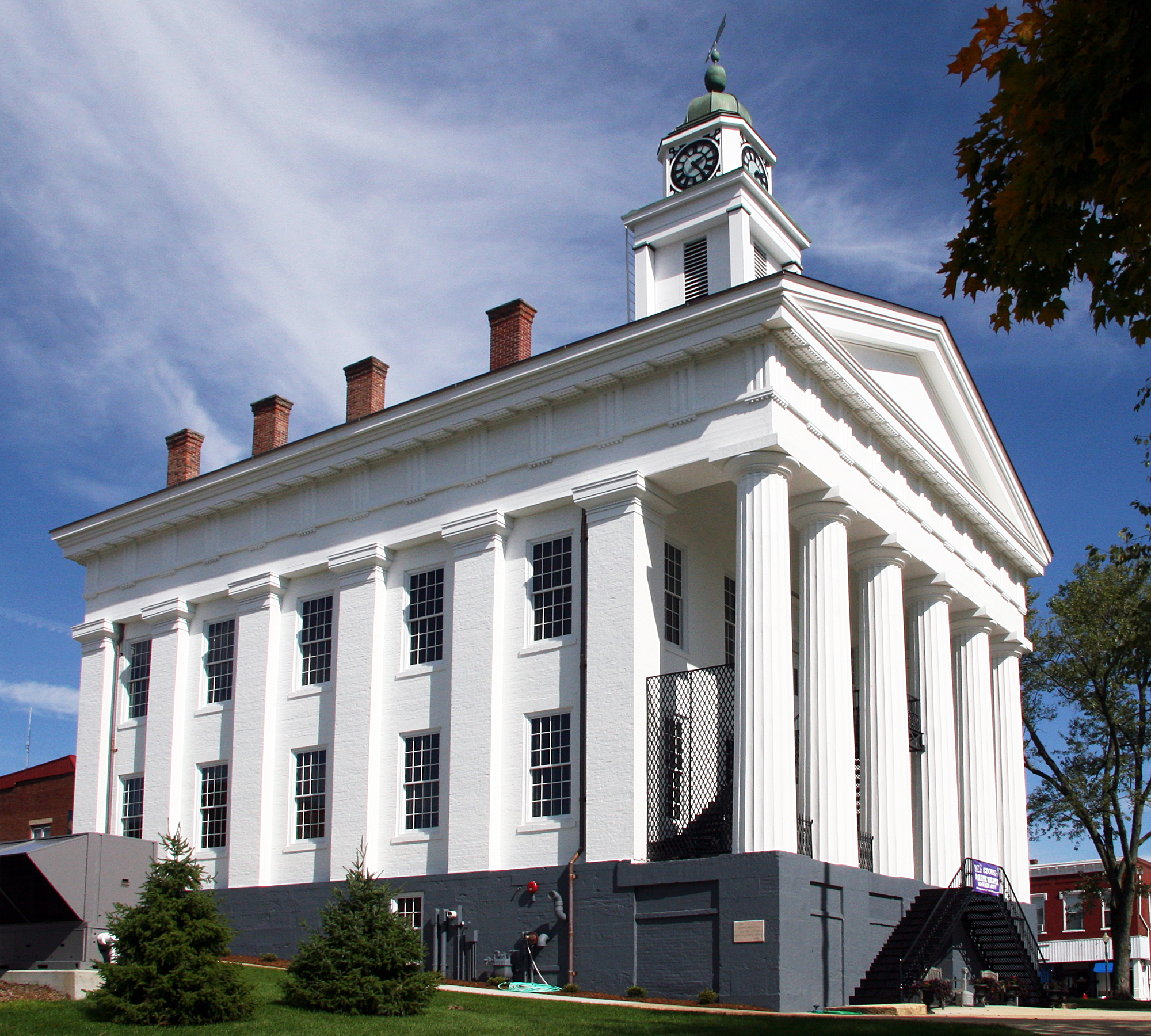 The Orange County Courthouse in Paoli, Indiana. Photo looks northeast.